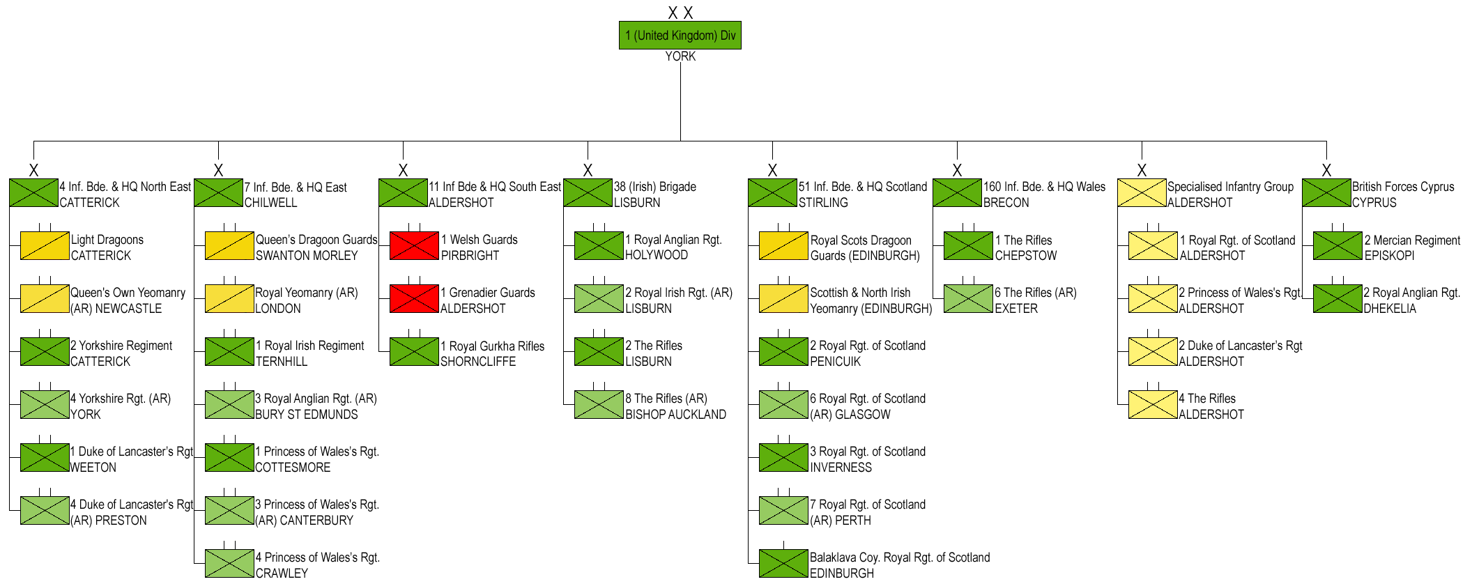 Structure of 1st (UK) Division after the Army 2020 reform